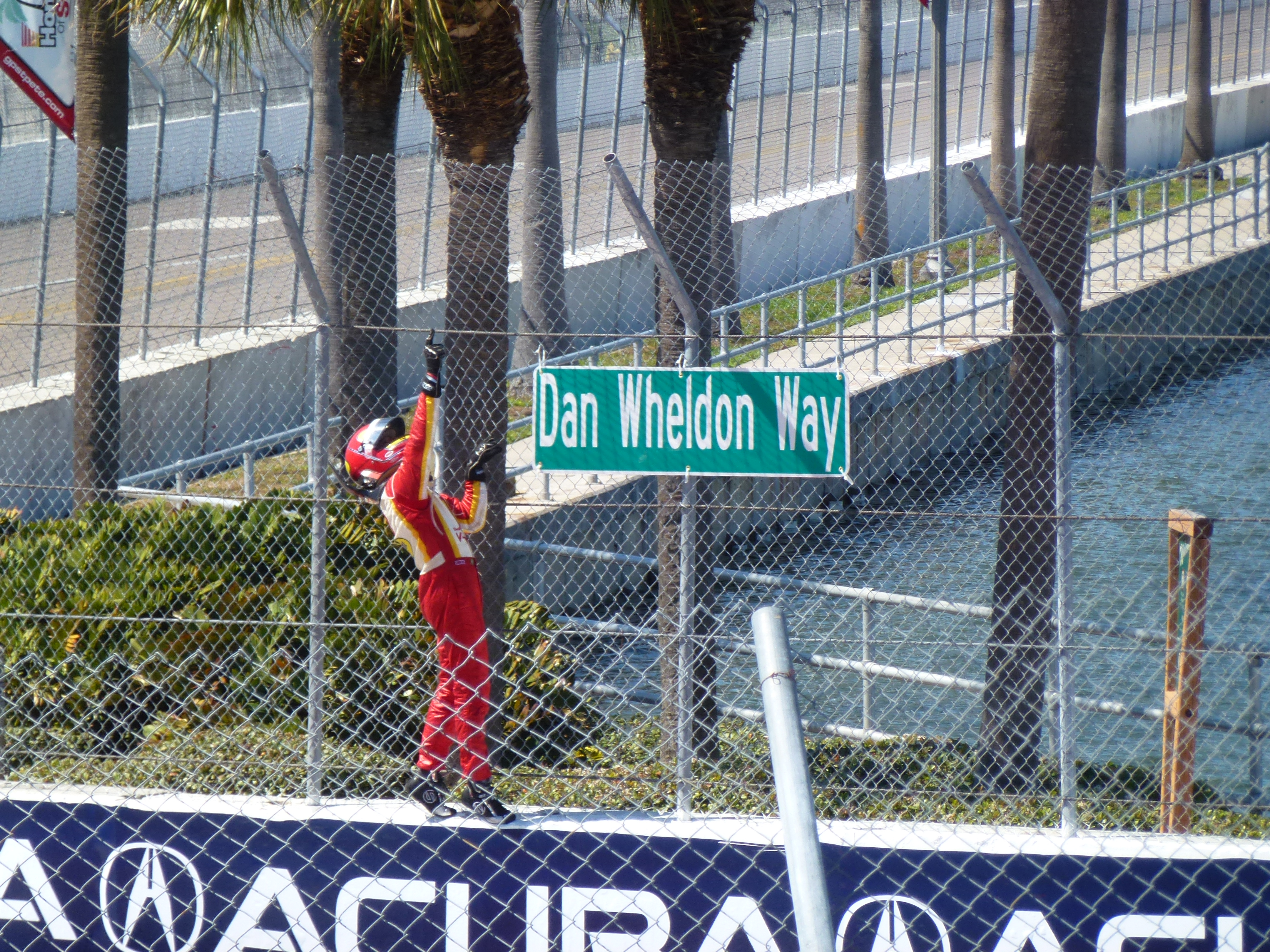 Helio Castroneves stopped at corner 10 on his victory lap after winning the 2012 Honda Grand Prix of St. Petersburg to pay respects to the sign honoring the late Dan Wheldon.